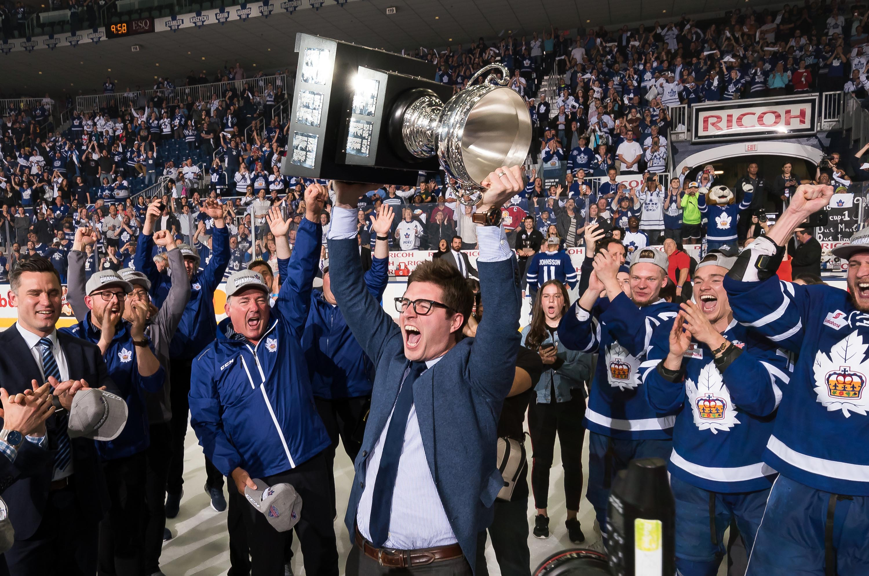 Photo: Christian Bonin